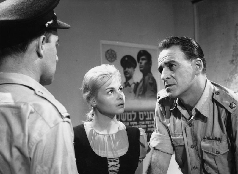 Photo taken during filming of "Blazing Sand". Natan Cogan to the right, Gila Almagor in the middle